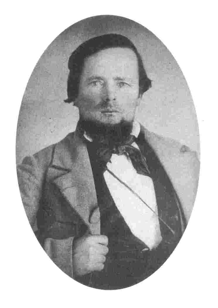 Historical photograph from 1860 in public domain